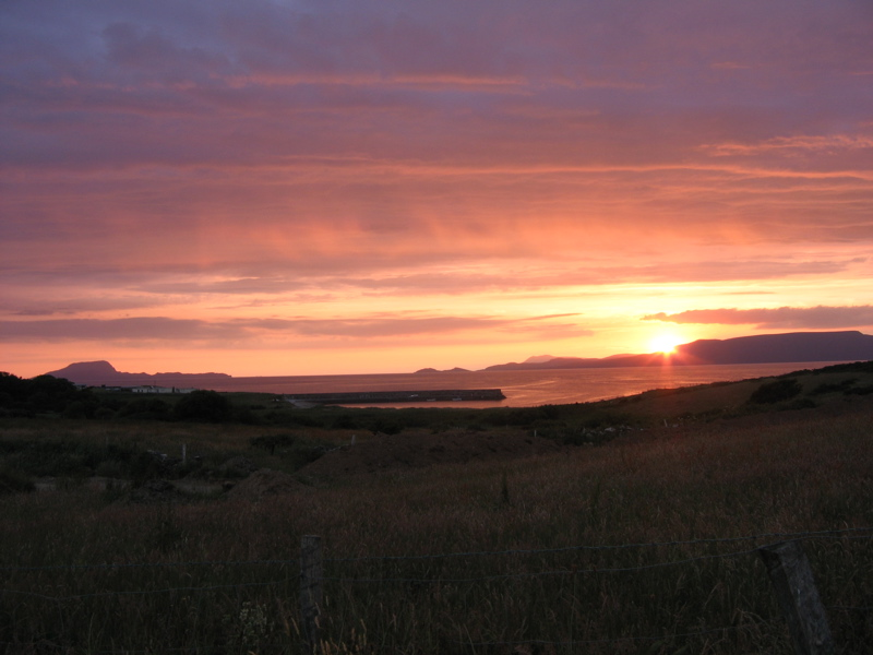 I took this photograph of the sun setting on Achill Island over Lecanvey Pier and Clew Bay 28 June 2005 at 21:02. On the horizon to the right is Clare Island.